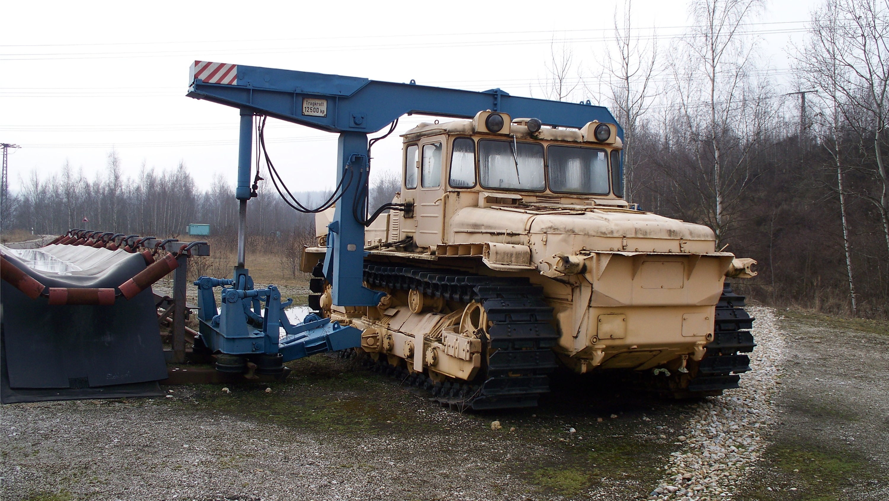 An inactive DET-250 tractor.